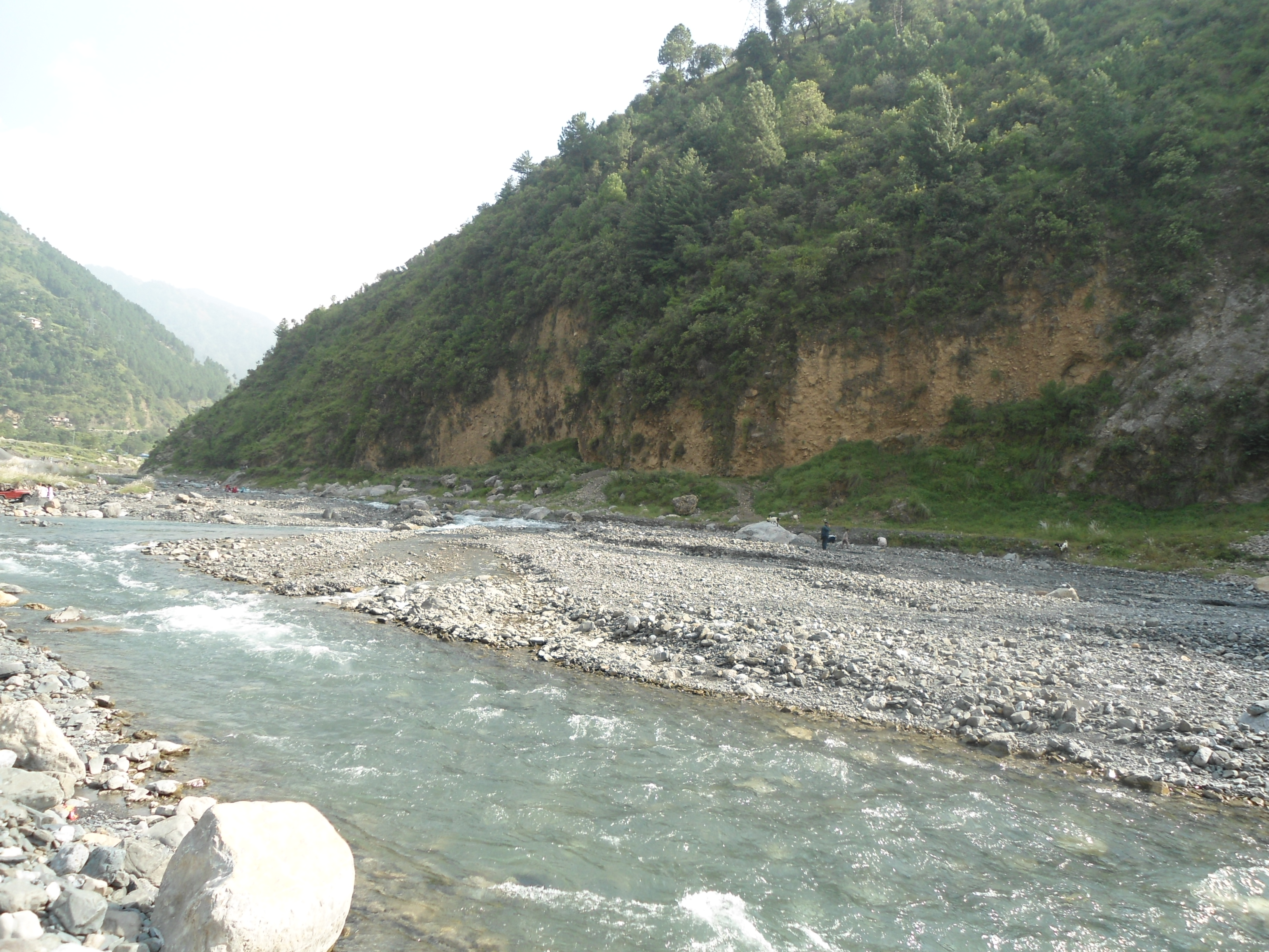 Gomal river gorge view